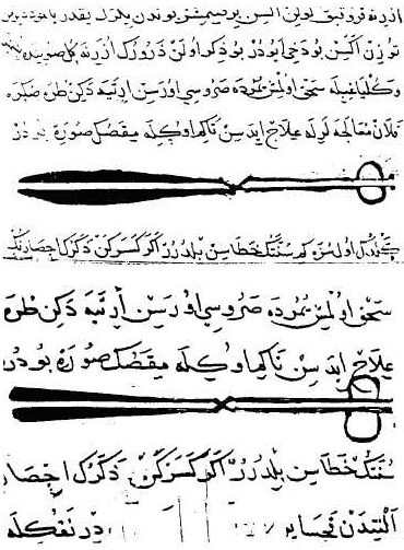 Two types of scissors for circumcision. Illustration from Cerrahiye-i Ilhaniye, Şerafeddin Sabuncuoğlu XIV-century medicine book